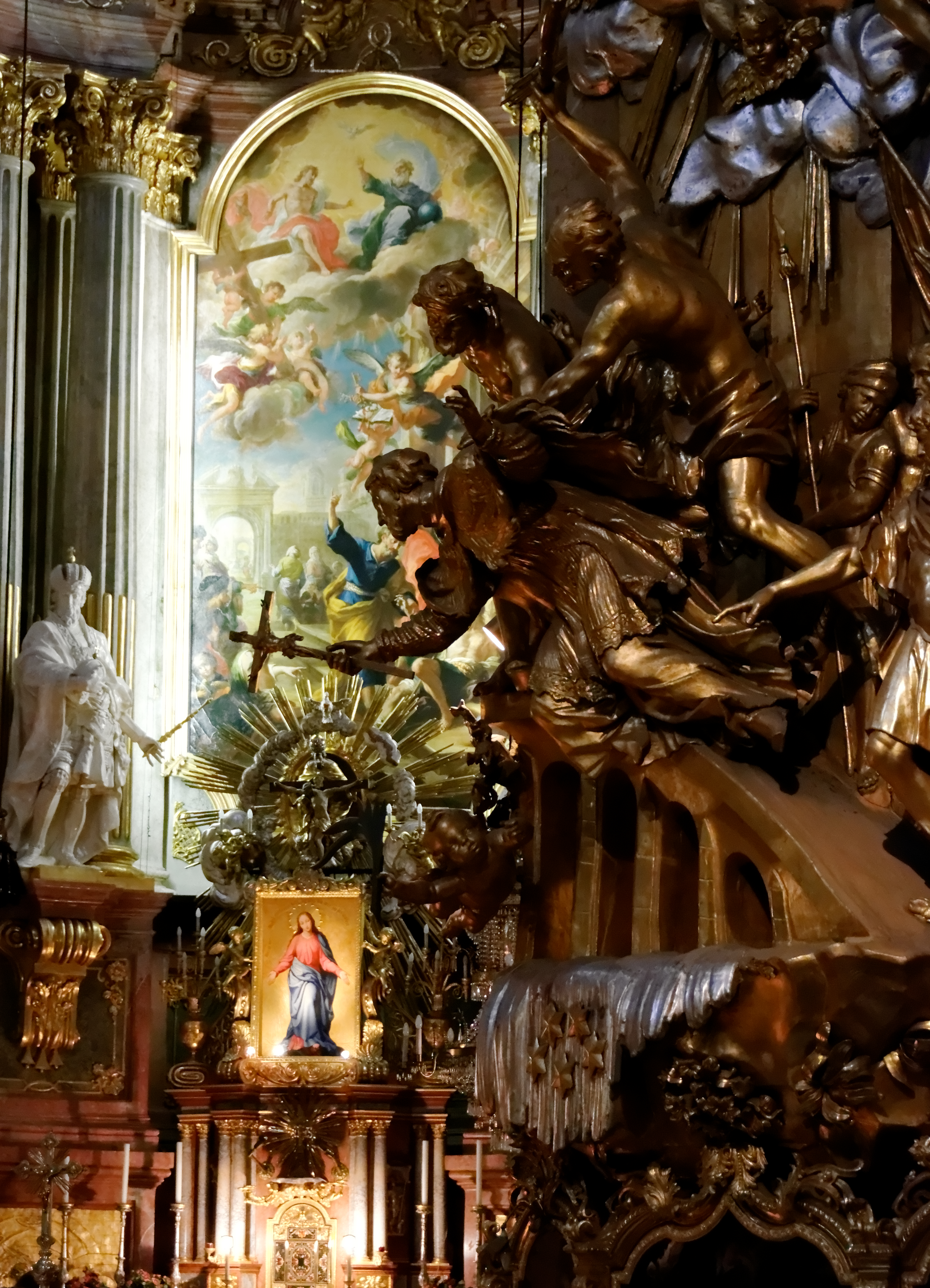 Martyrdom of John of Nepomuk, Peterskirche, Vienna (Austria)